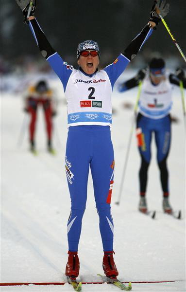 Petra Majdič winning in 2009